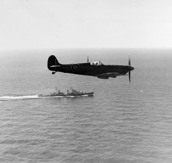 A Supermarine Seafire of 807 Naval Air Squadron, Fleet Air Arm, flying above the British cruiser HMS Royalist (89) during a training flight from the Royal Naval Air Station at Dekhelia, Egypt.